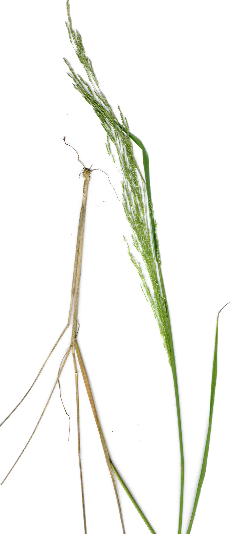 Agrostis avenacea (plant). Location: Maui, Kahakapau